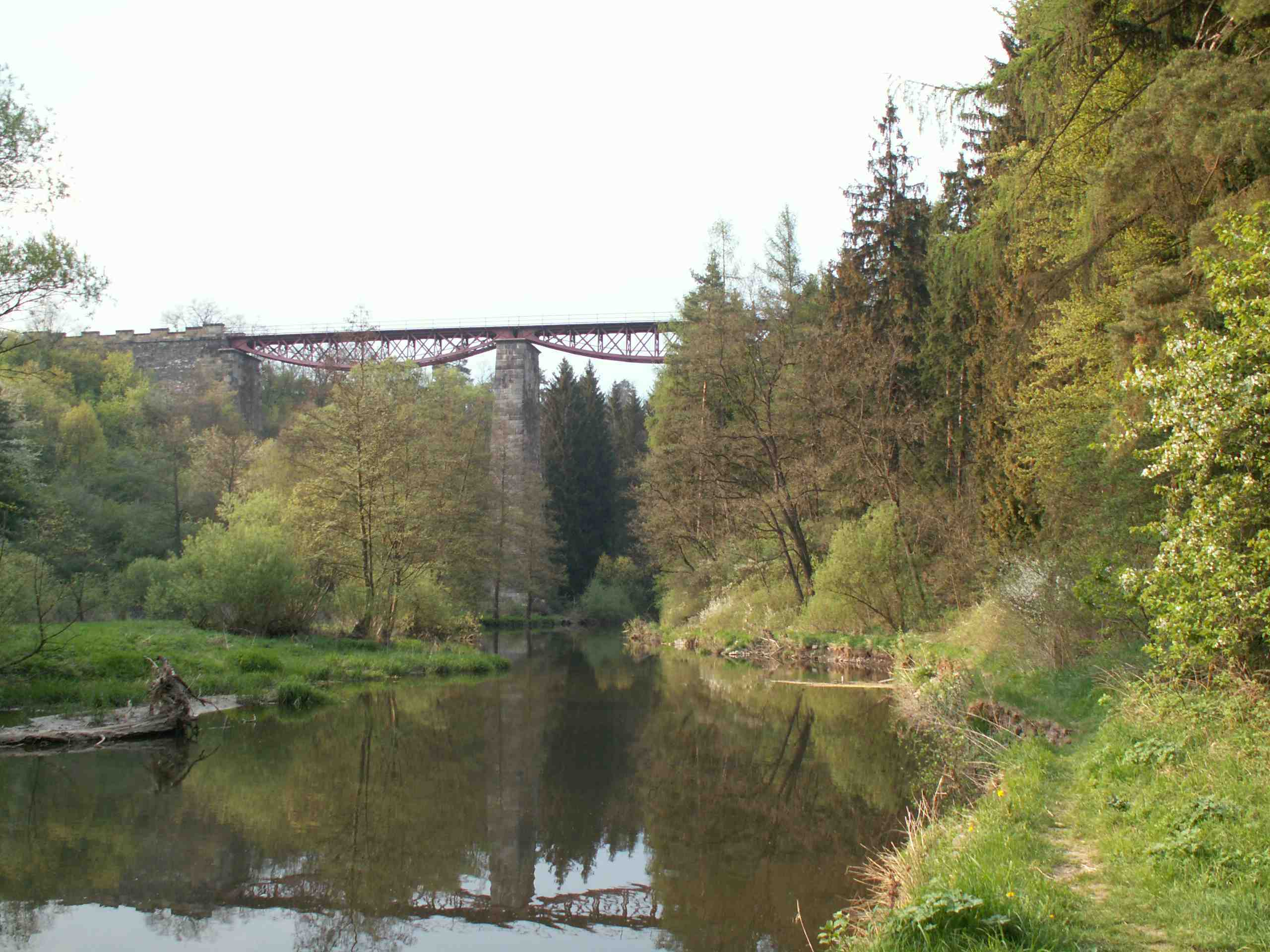 Valley of the Klabava River below railway bridge of Chrást - Radnice line.